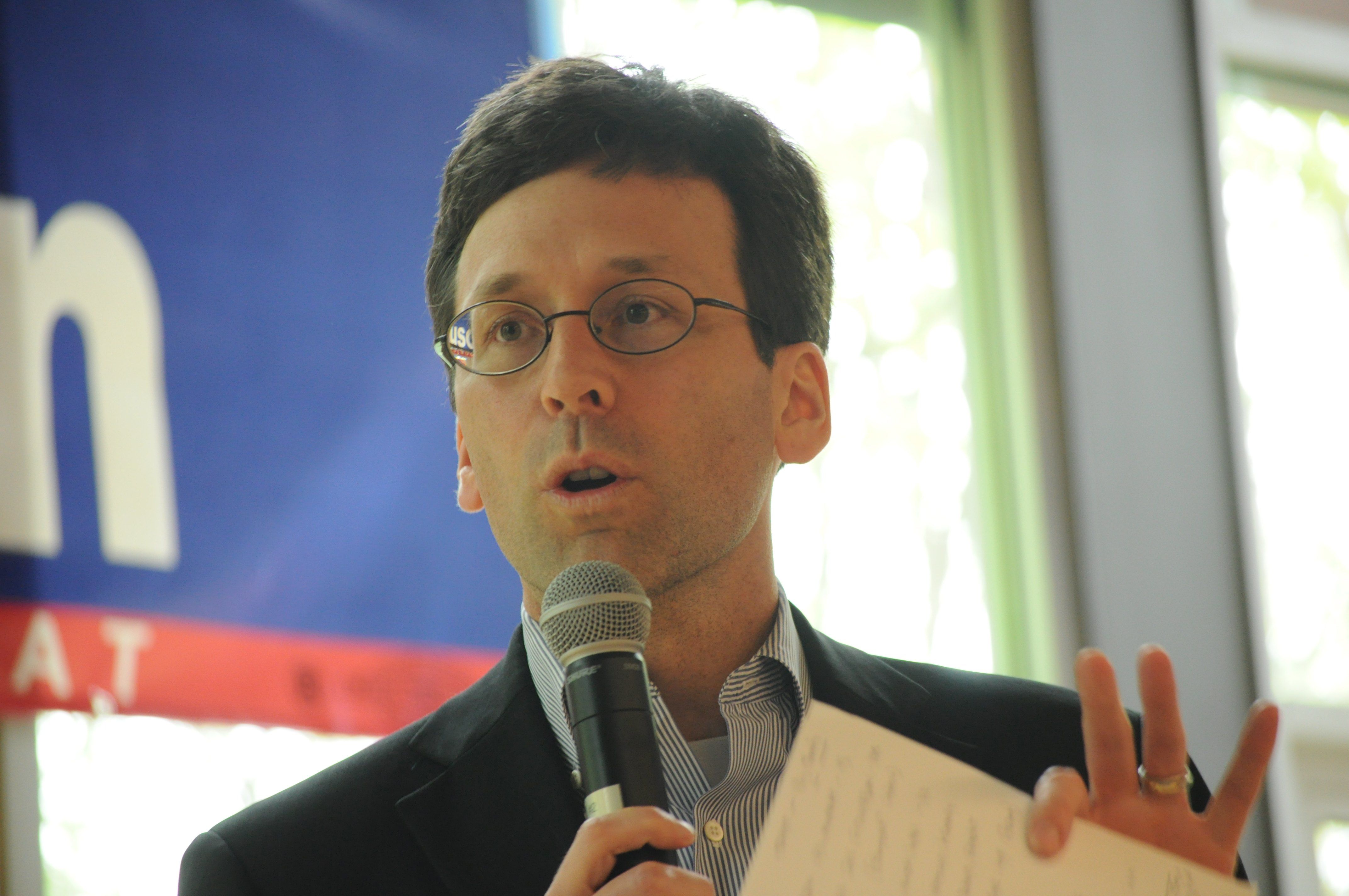 King County (Washington, US) Council Member and candidate for State Attorney General Bob Ferguson speaking at his 6th Annual Shrimp Feed (a tradition he took over from former Washington governor Mike Lowry), Northgate Community Center, Seattle, Washington.